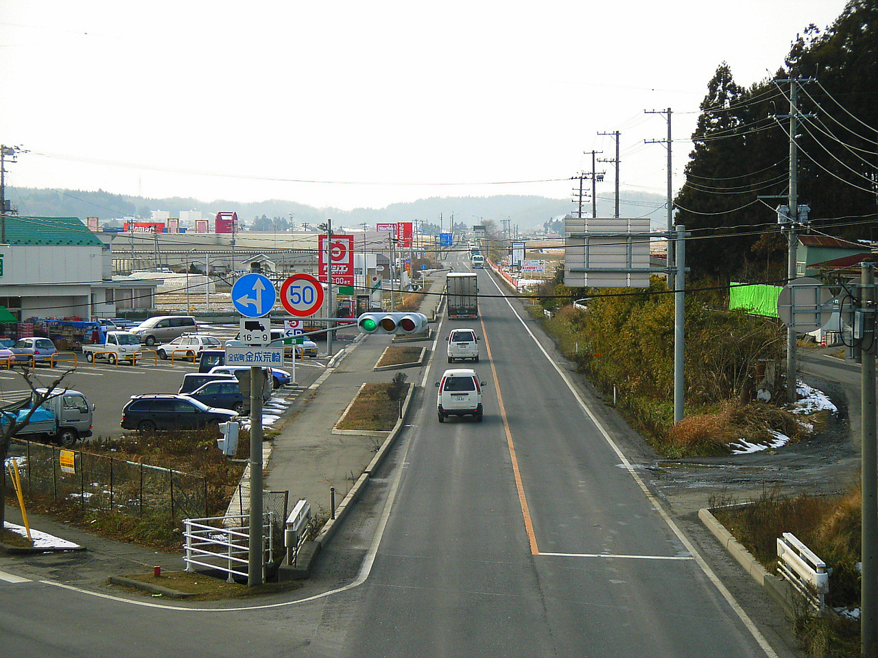 Route 4 (National Highway 4) in Kannari, Kurihara, Miyagi prefecture, Japan.